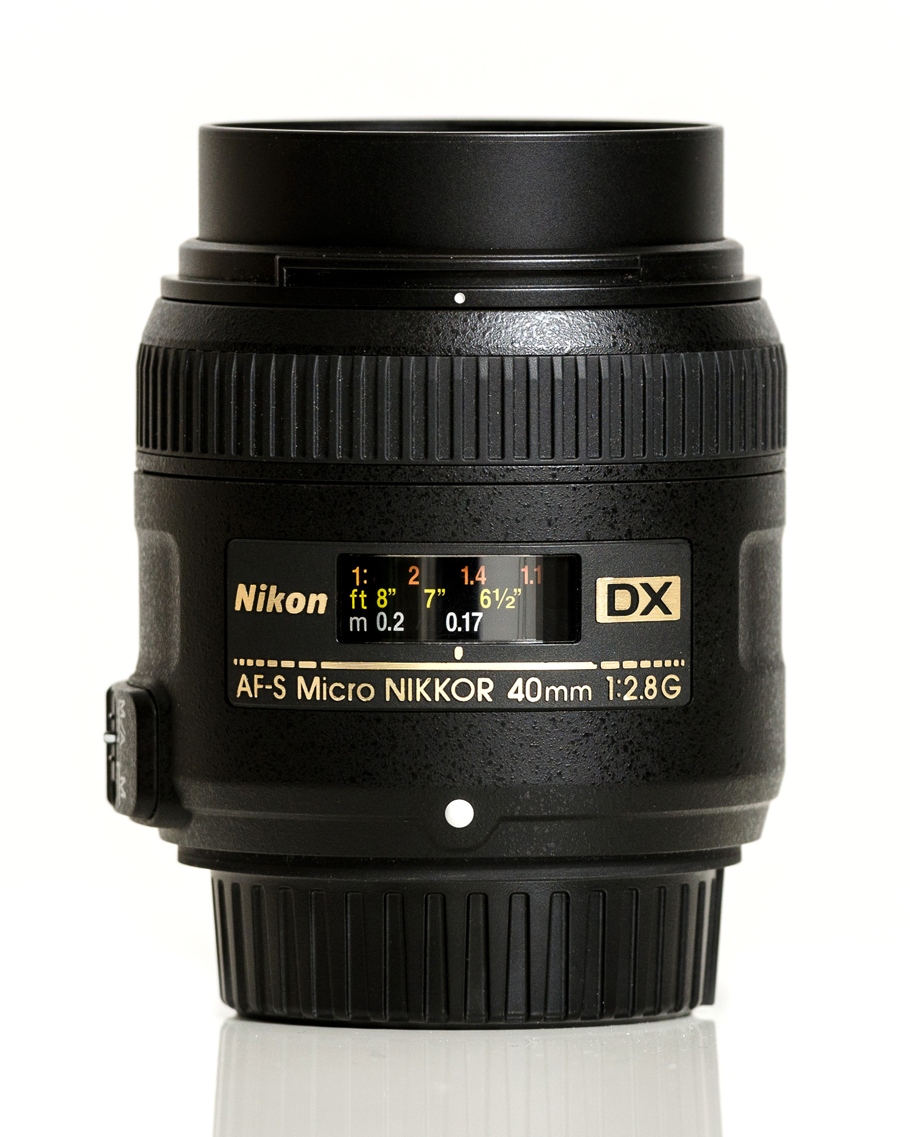 A Nikon Nikon DX AF-S Micro Nikkor 40mm f2.8G lens. This lens can be used as a macro lens and is intended for Nikon DX format cameras.